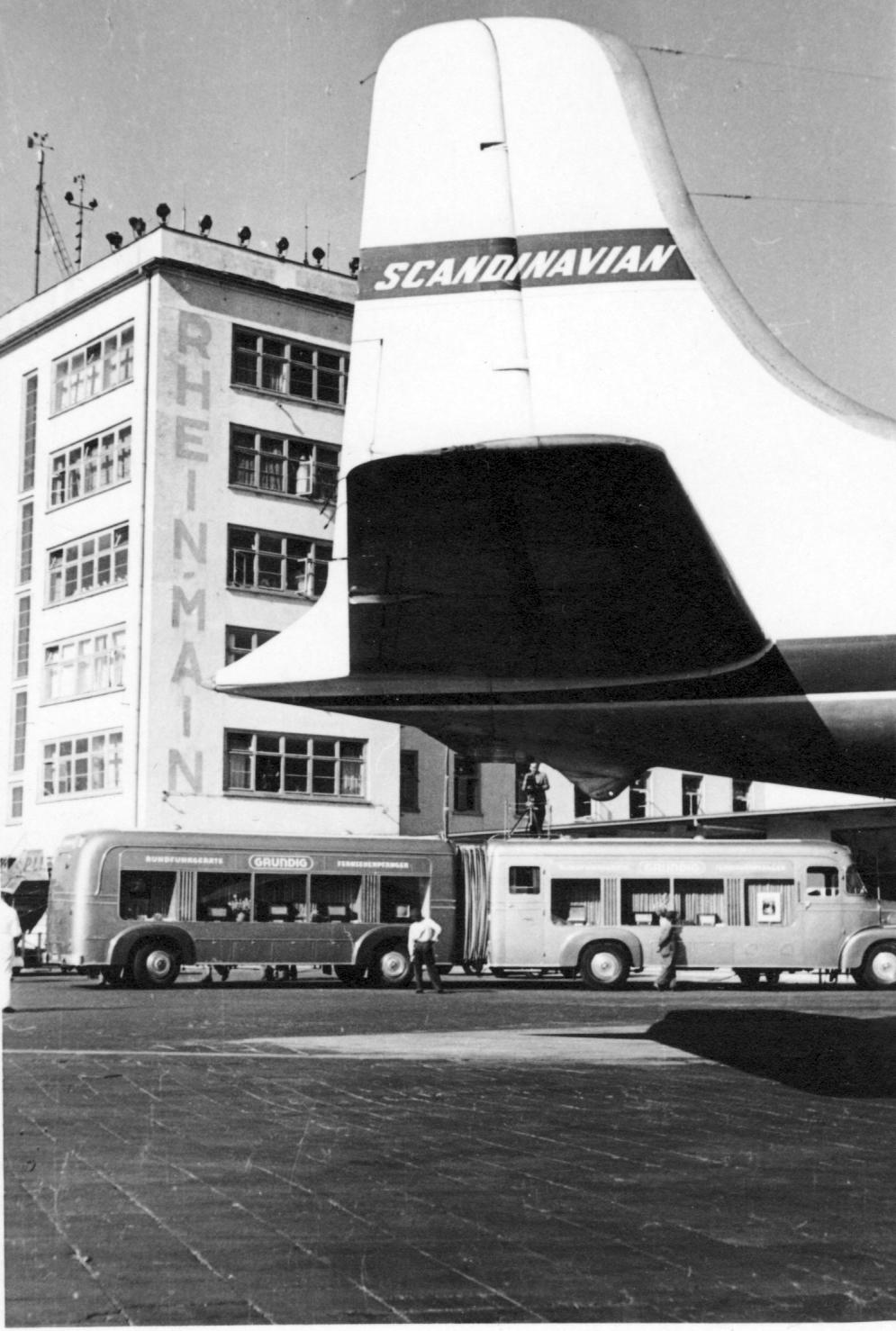 Frankfurt Airport